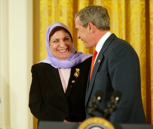 President George W. Bush greets Dr. Raja Habib Khuzai of the Iraqi Governing Council